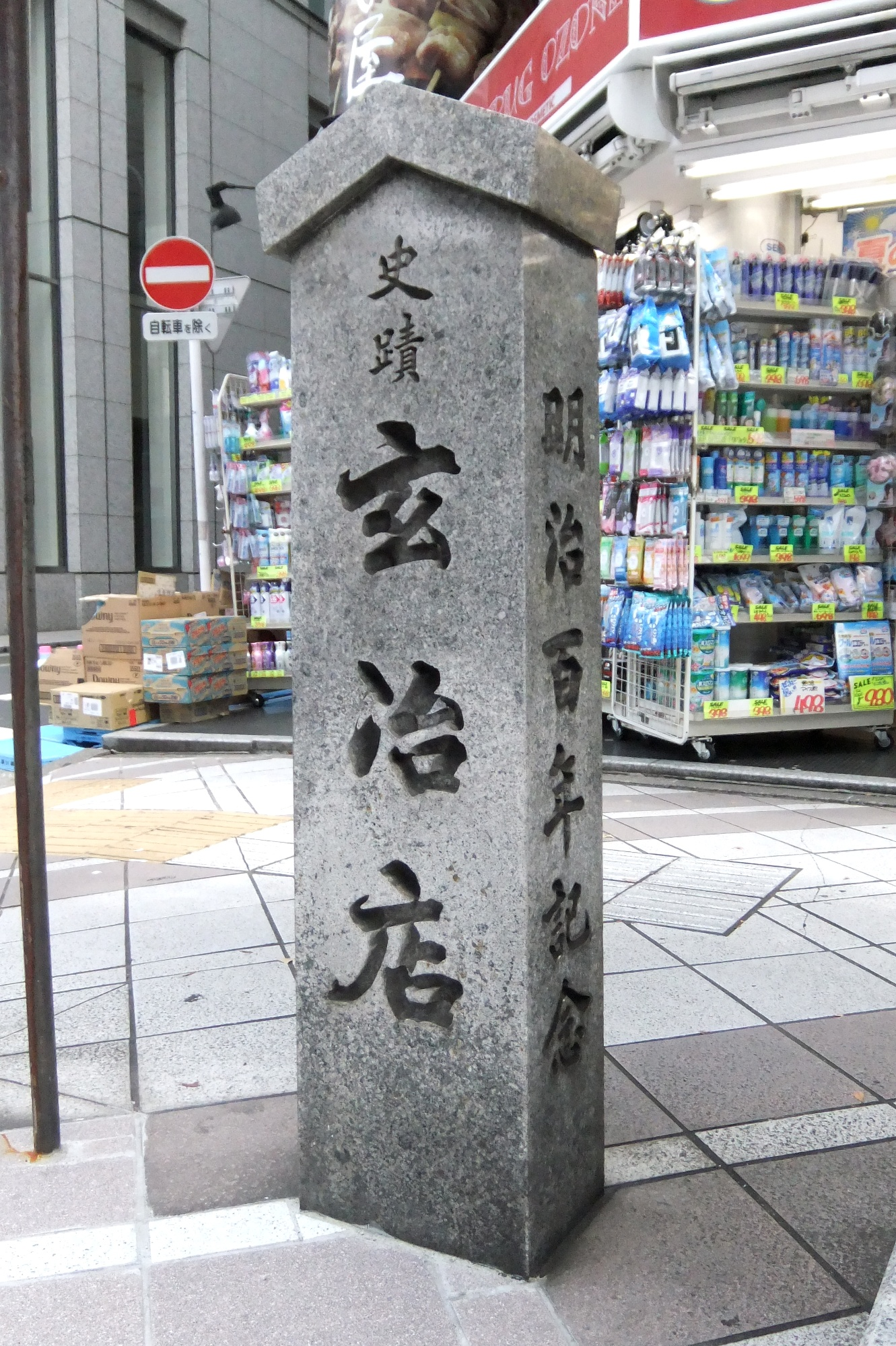 Historic site of "Gen'yadana" at Ningyōchō in Chūō-ku, Tokyo.